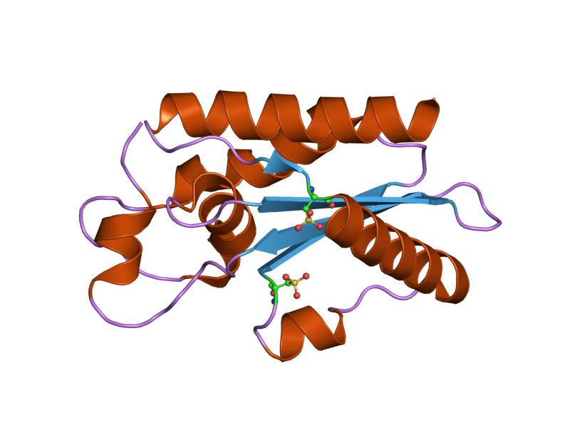 Cartoon representation of the molecular structure of protein registered with 1smb code.